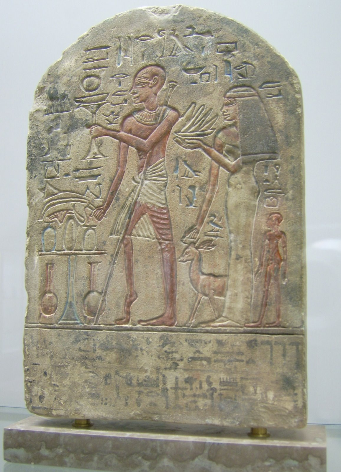 Egyptian stone carving during the reign of King Amenhotep III (14th century B.C.), showing person with polio